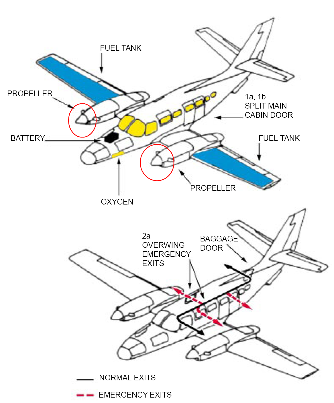 Reims Cessna F406